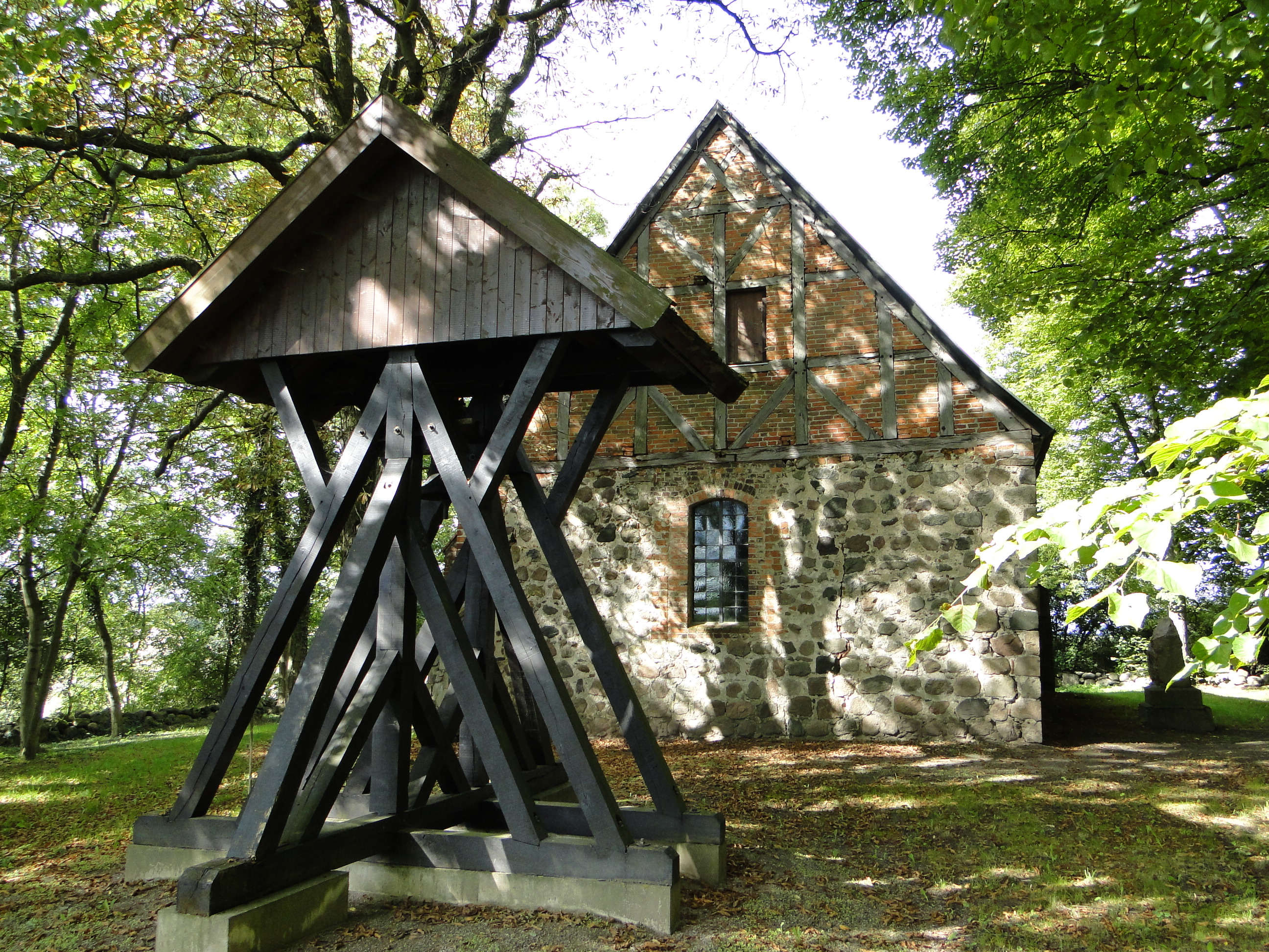 Church in Kraase, district Müritz, Mecklenburg-Vorpommern, Germany